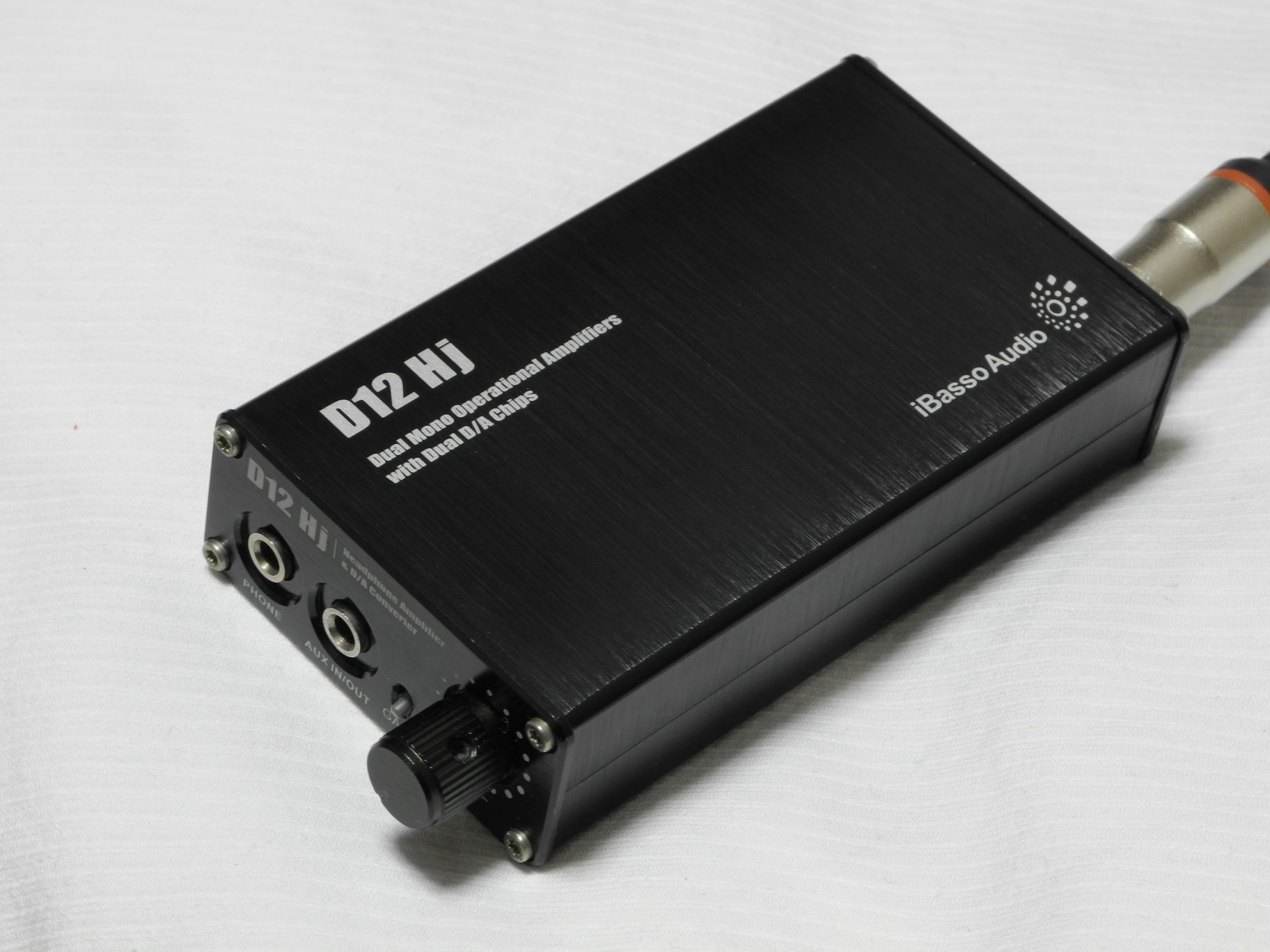 iBasso Audio D12 Hj